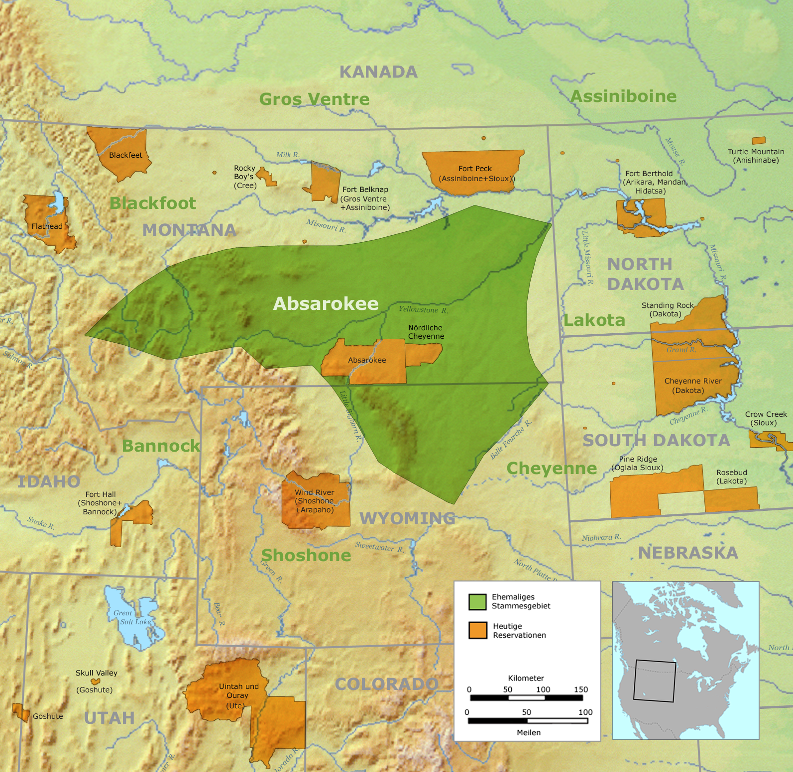 Tribal territory of Absarokee